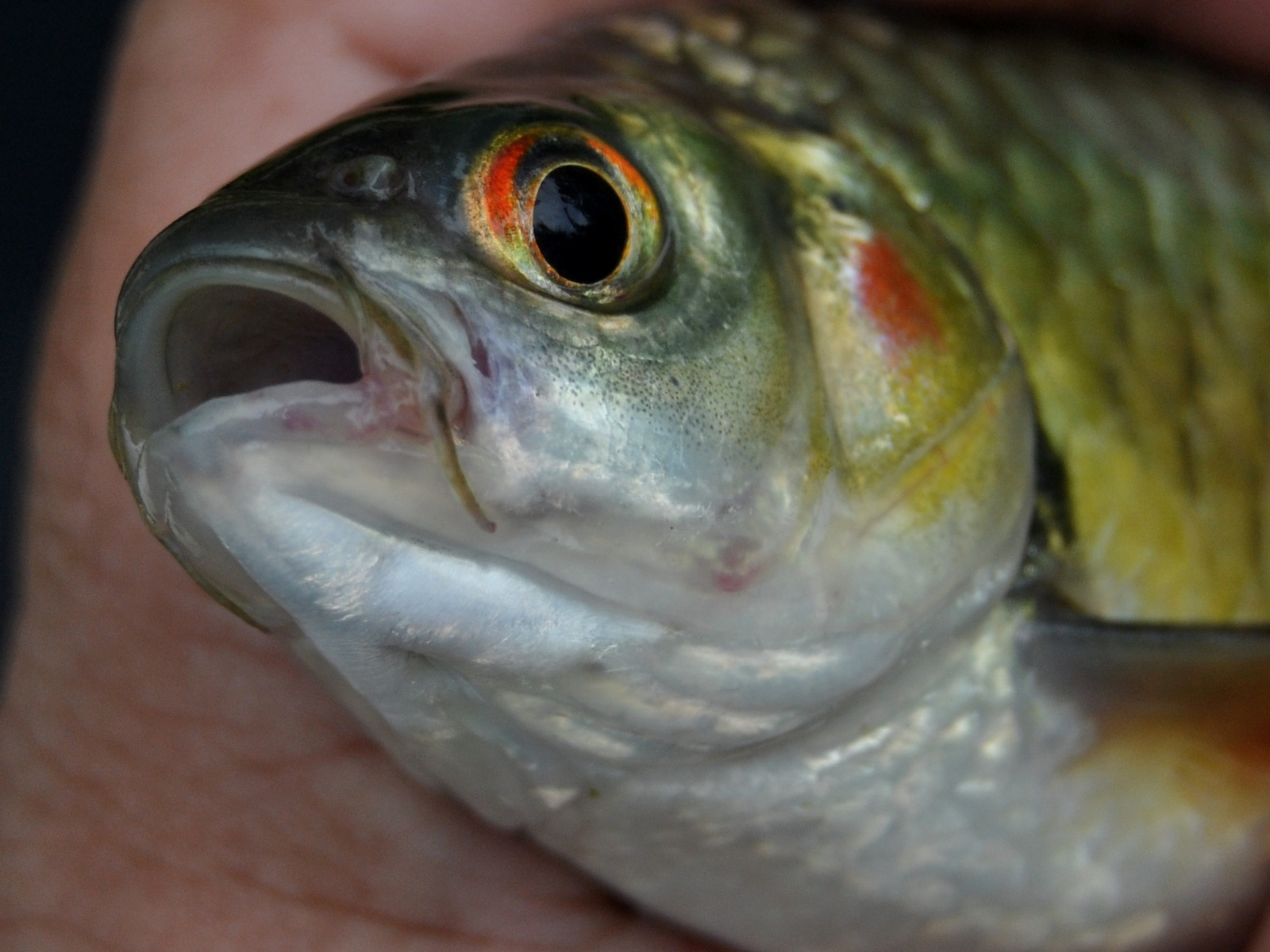 Javaen barb (Puntius orphoides), 132 mm SL; from Tasikmalaya, West Java, Indonesia. Snout and mouth region.